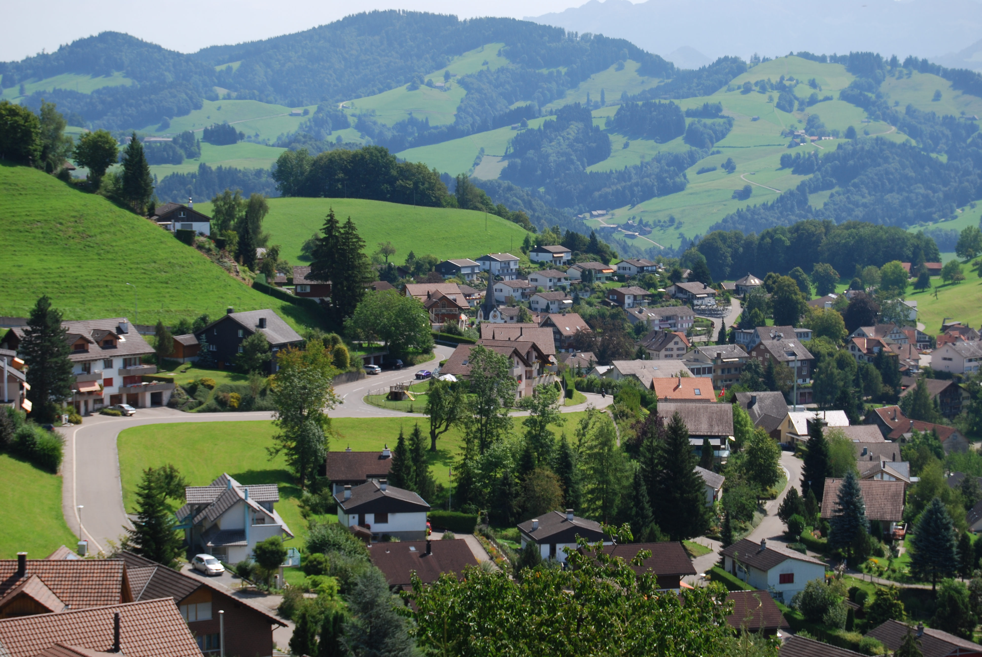 Oberhelfenschwil, canton of St. Gallen, Switzerland